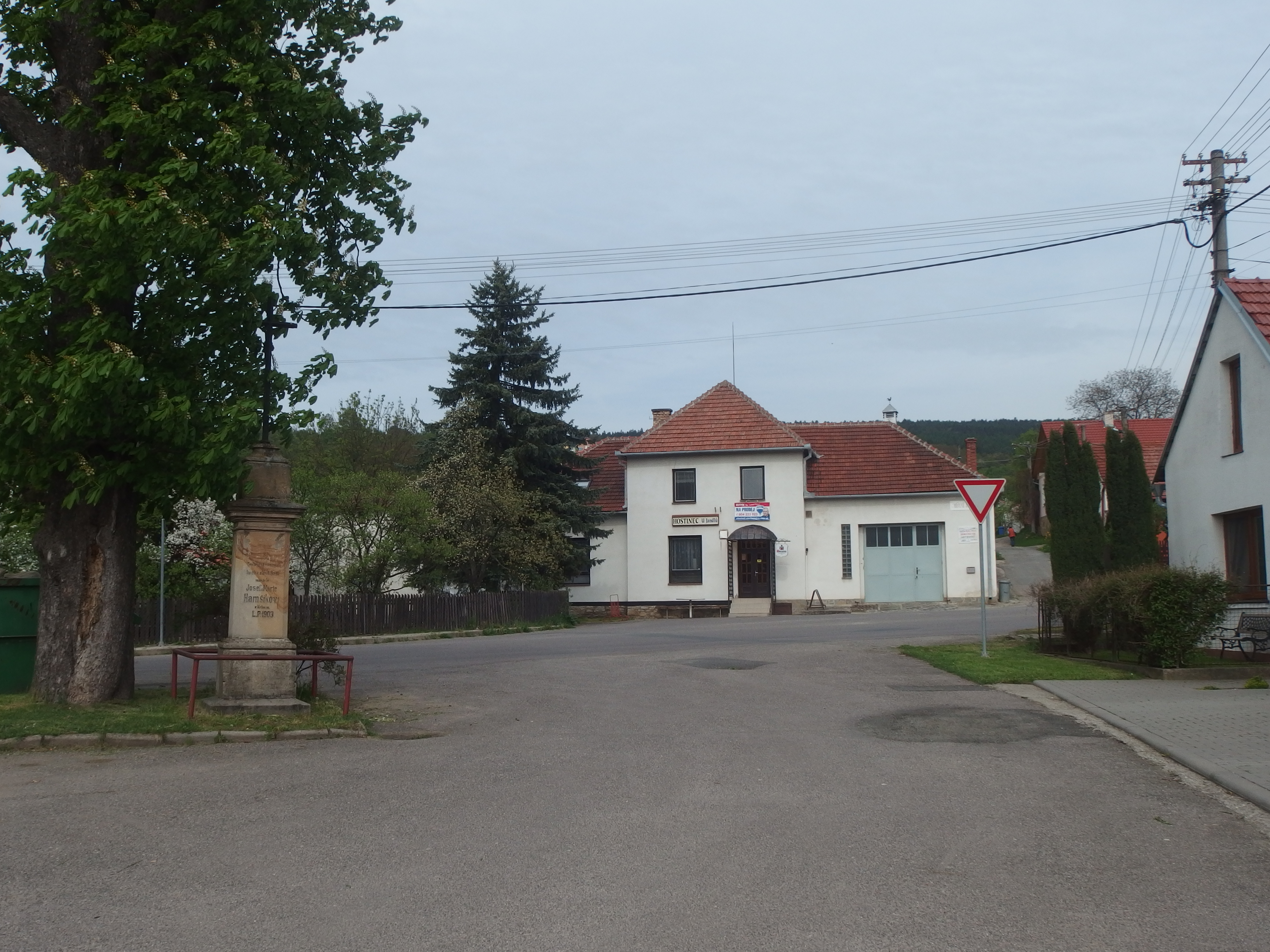 Bojkovice in Uherské Hradiště District, Czech Republic, part Krhov.